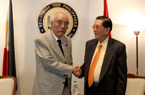 Hajime Ishii, President of the Japan-Philippines Parliamentarian Friendship League, met Juan Ponce Enrile, President of the Senate, in Philippines on May 4, 2011.